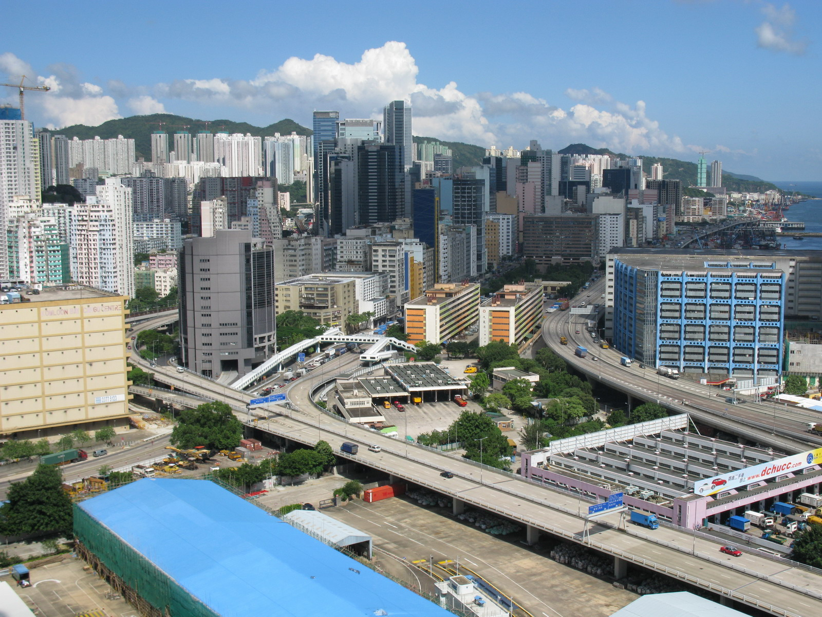 Kwun Tong District